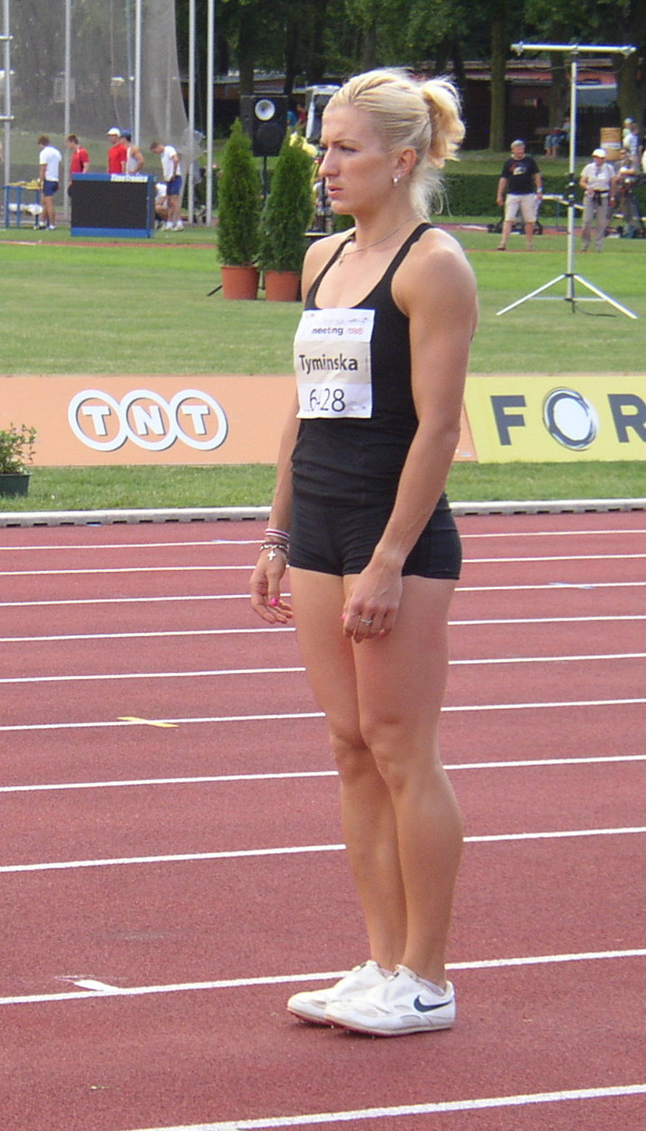 Athlete Karolina Tymińska of Poland preparing for her attempt in long jump during women's heptathlon at 5th edition of the TNT - Fortuna Meeting (IAAF World Combined Events Challenge Meeting, Sletiště Stadium, Kladno, Czech Republic, 16 June 2011, 12:04).